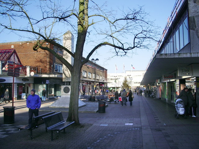 Pedestrianised shopping area Harlow town centre The shopping area is now looking mature after 40 to 50 years